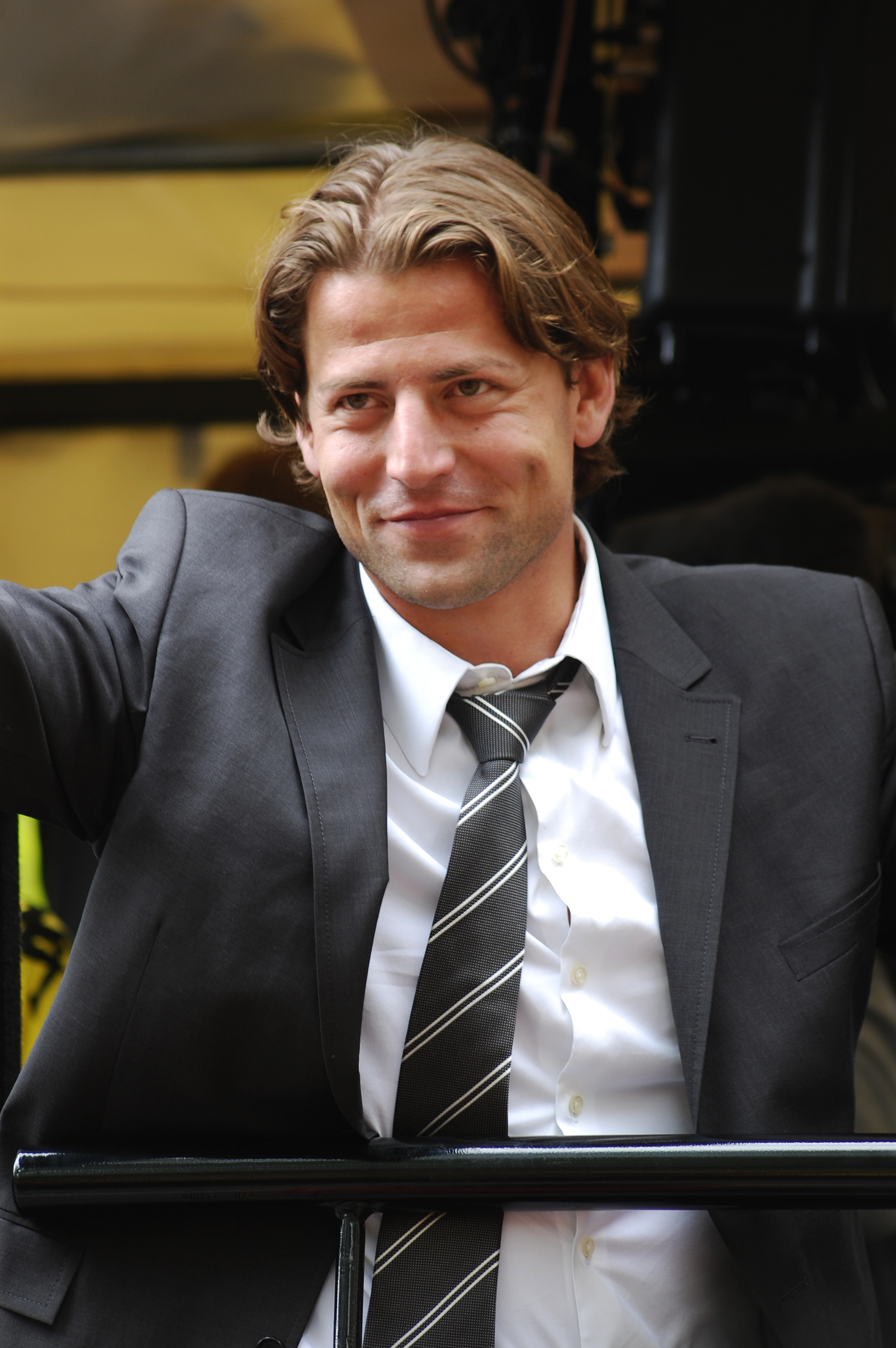 Roman Weidenfeller at Borussia Dortmund's Championship celebration 2011.